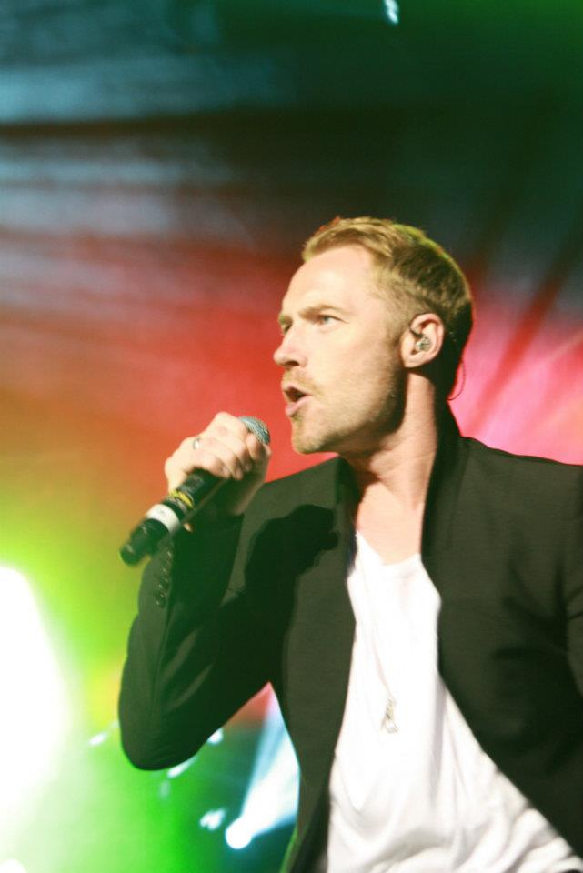 Ronan Keating performing on Summarfestivalur 3rd August 2012, Klaksvík, Faroe Islands